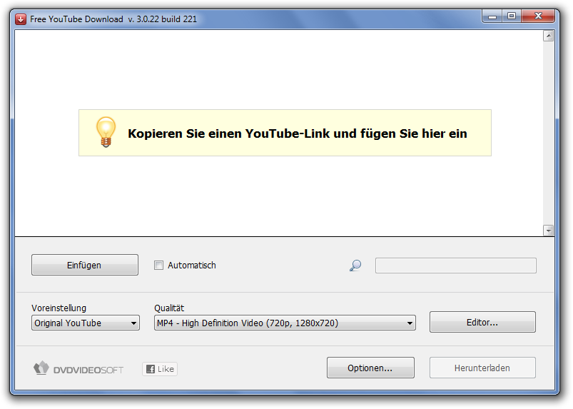 Free YouTube Download 3.0.22 unter Windows 7